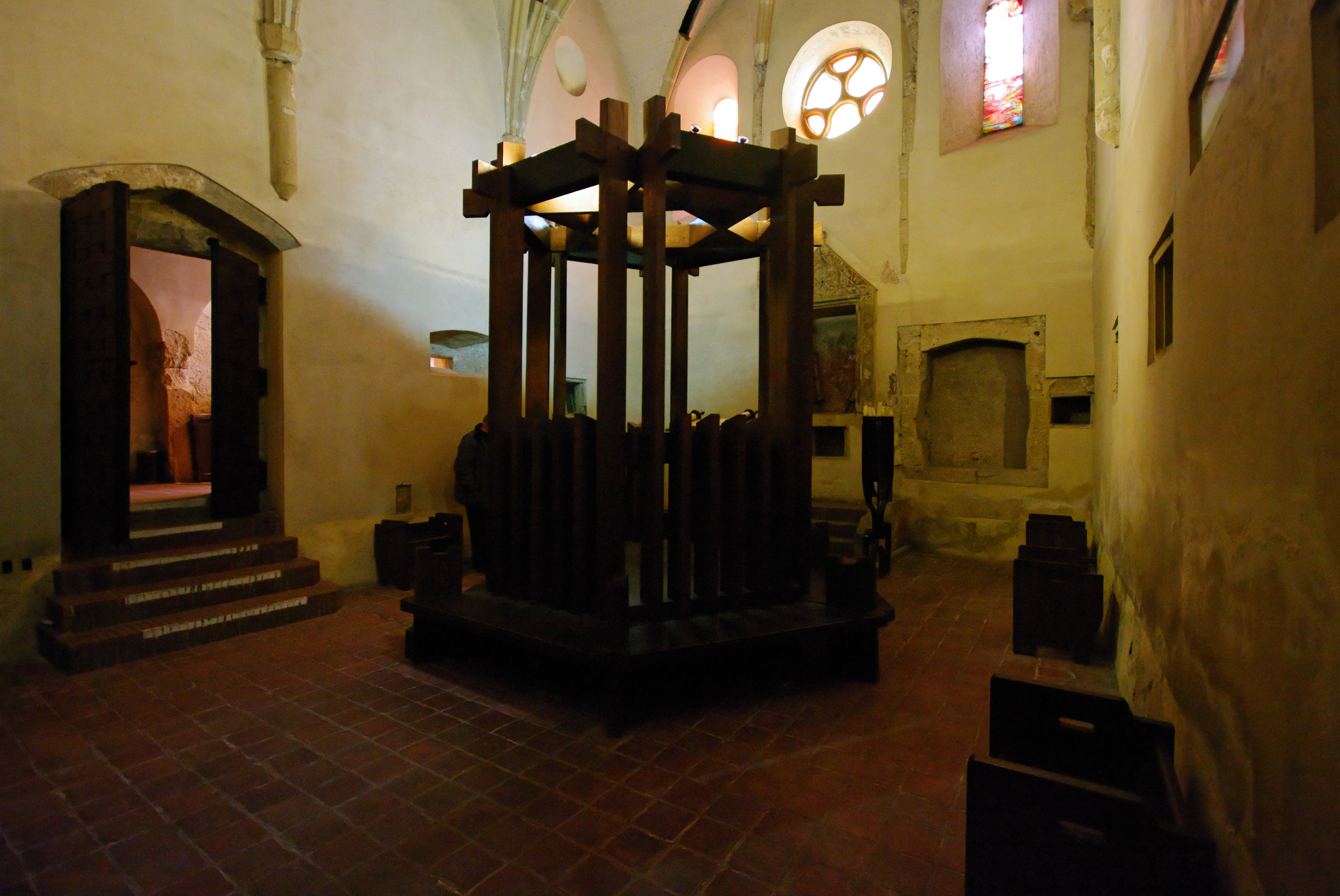 Main room of the old Synagogue of Sopron, Hungary. The six sided Bema, the platform for Torah reading during services, is placed in the center.